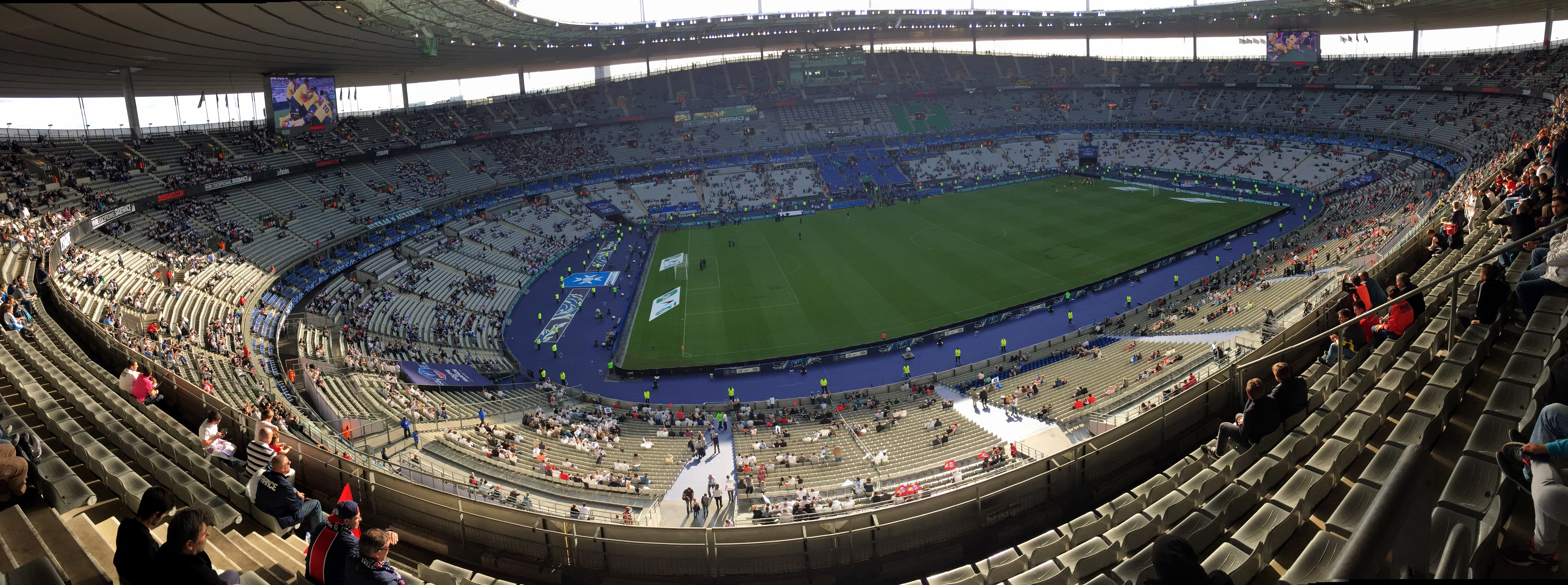 This photograph was taken with an iPhone 6